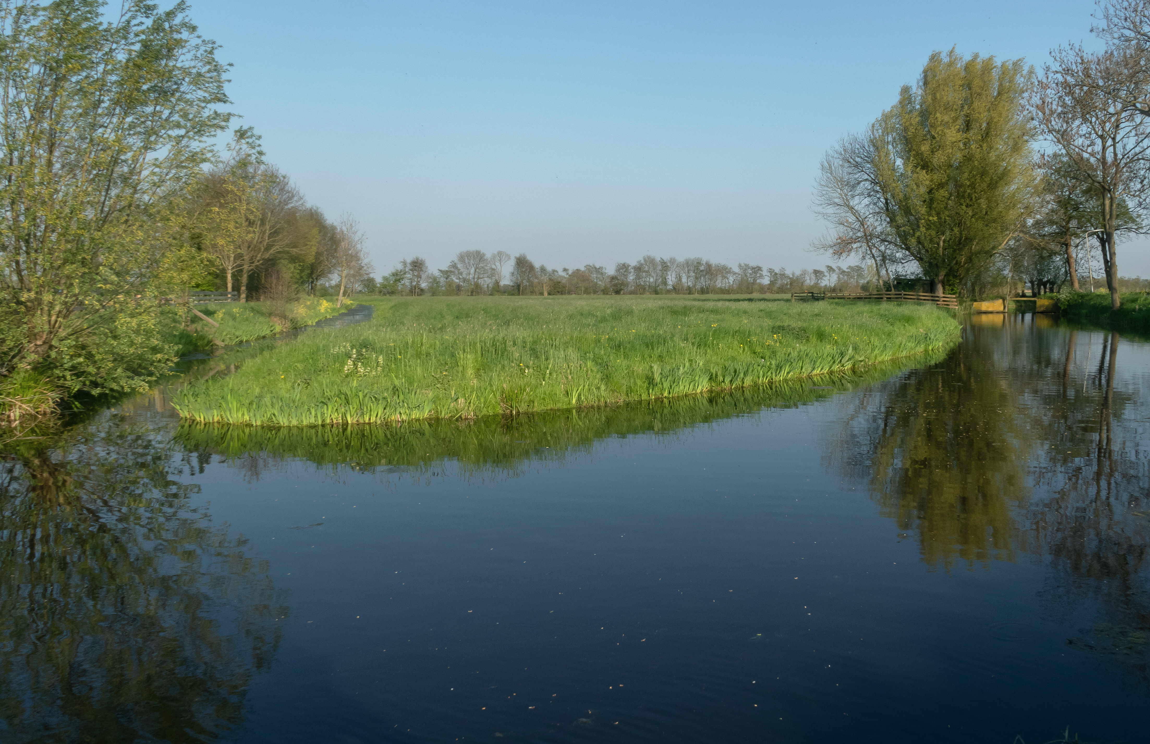 Stolwijk, view in the polder near Beijerscheweg-Goudseweg